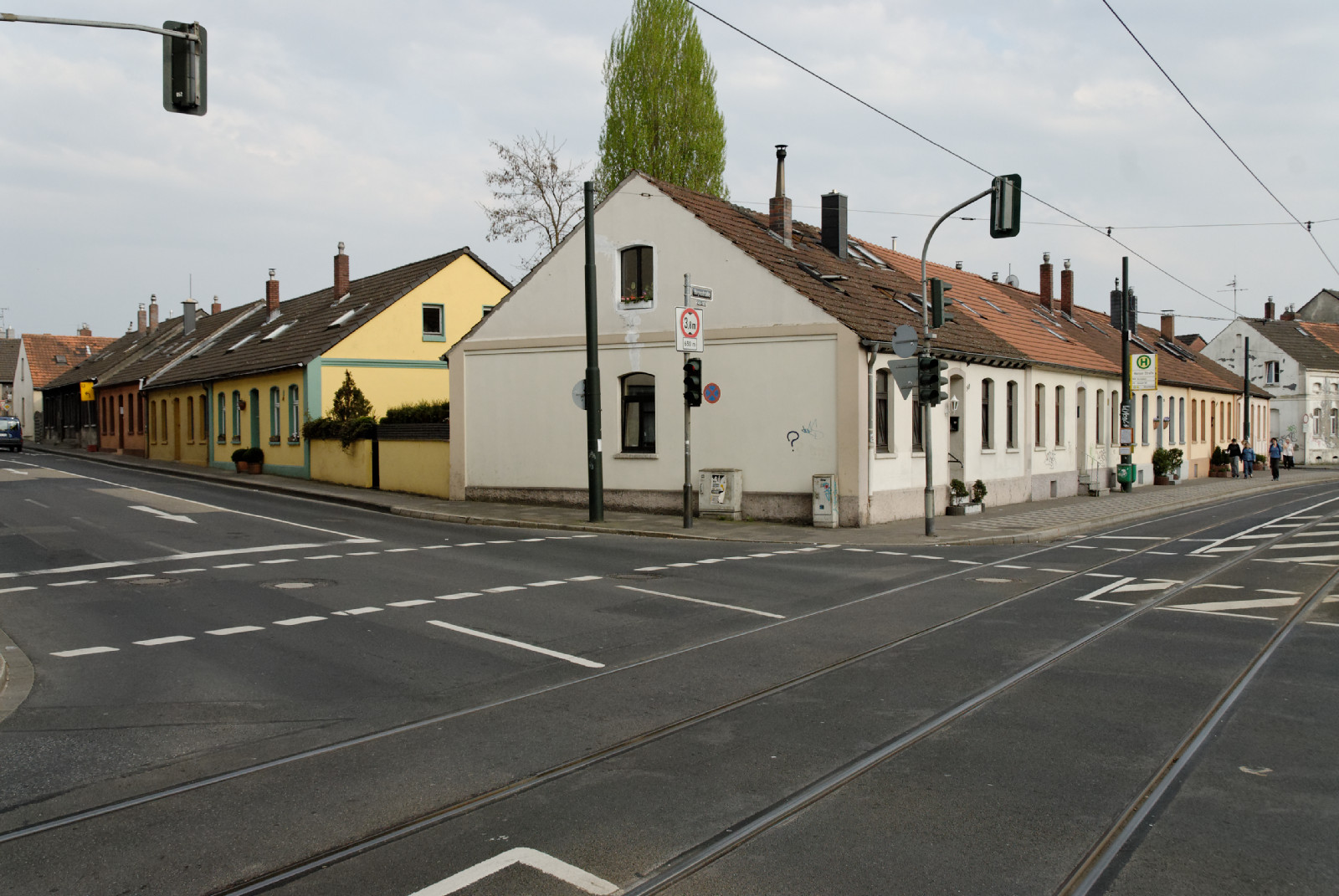 Houses Heyestraße 149 to 157 and Morper Straße 3 to 11 in Düsseldorf-Gerresheim, Germany This is a photograph of an architectural monument.